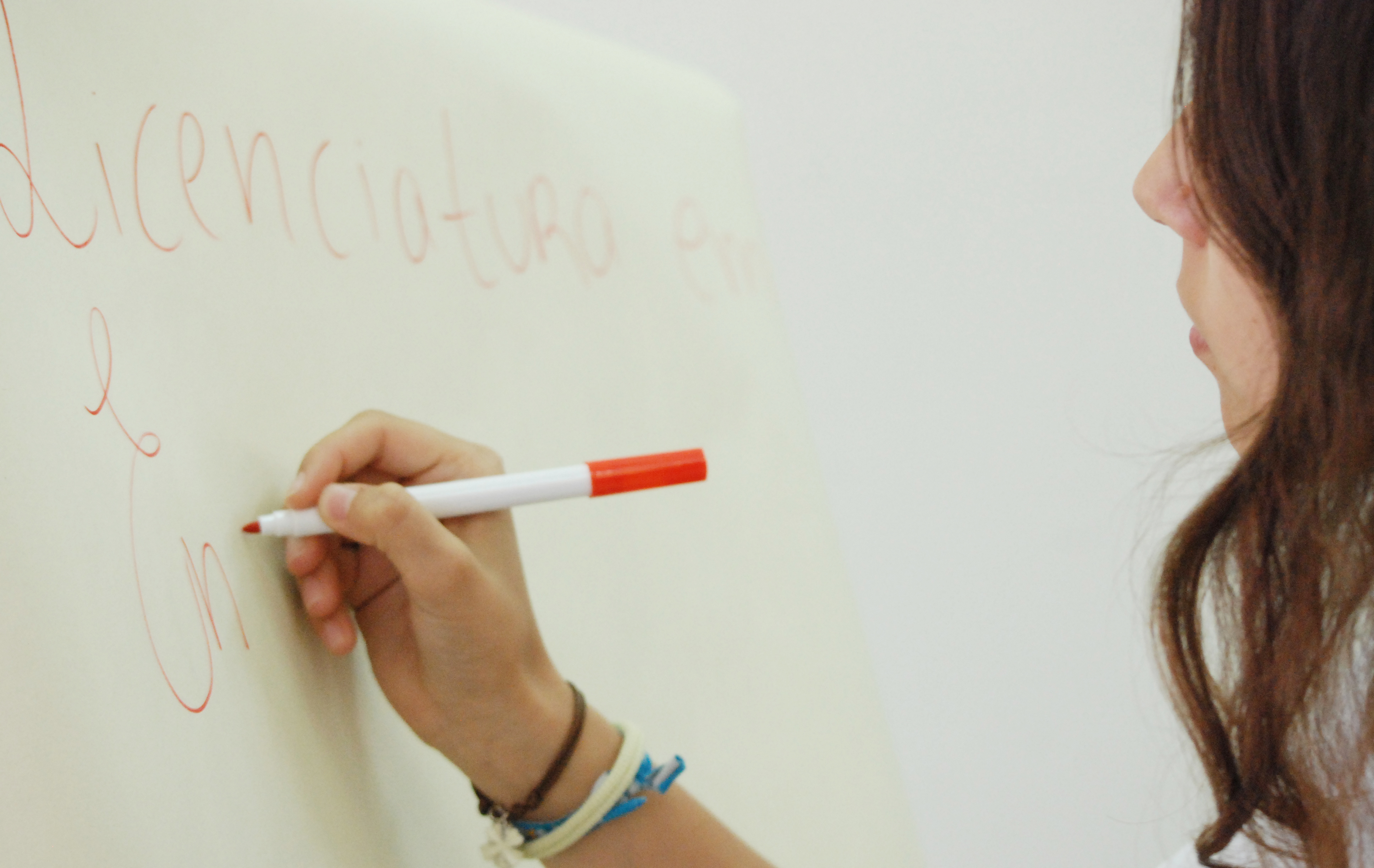 White board